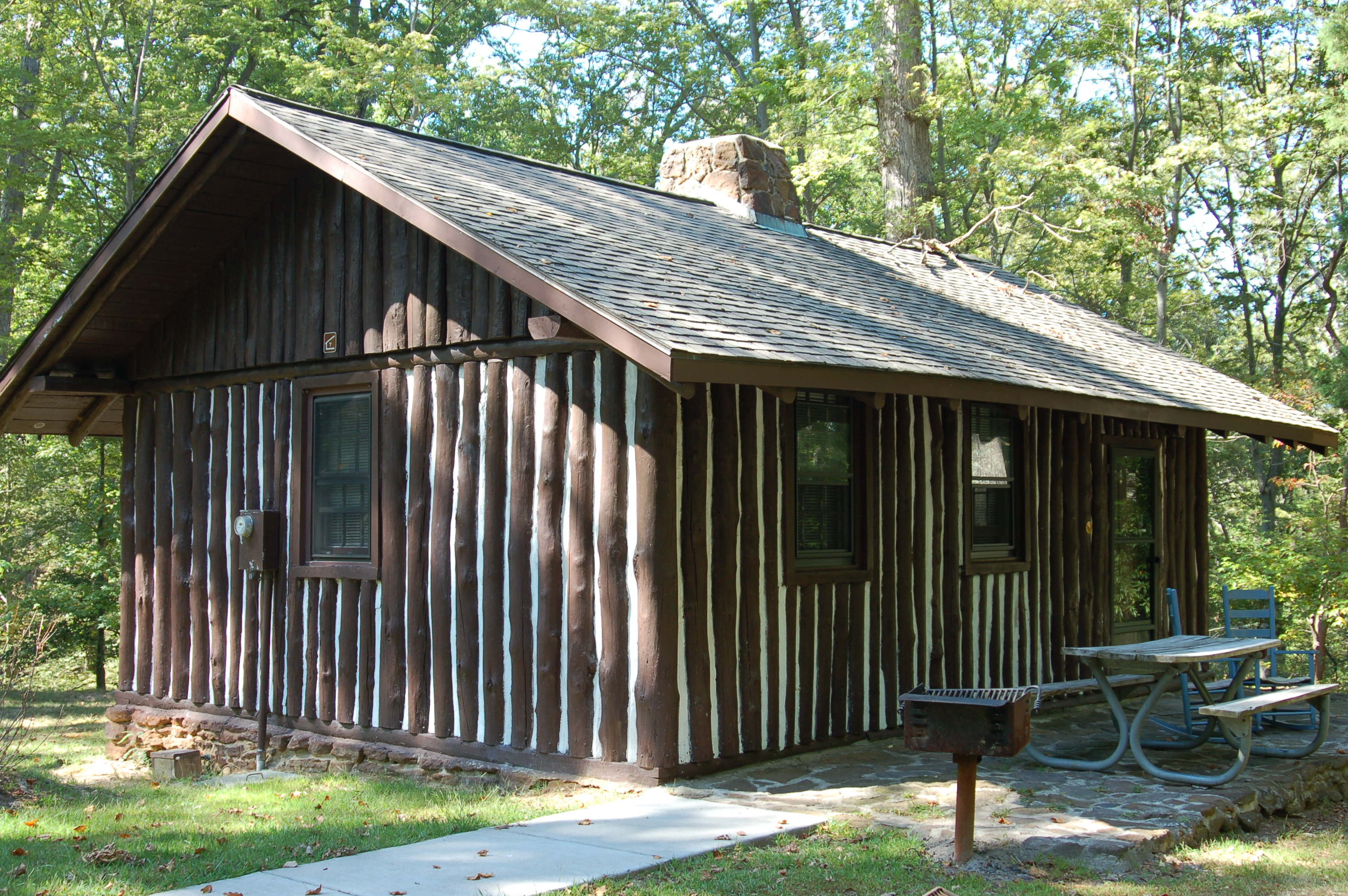 One-bedroom CCC log cabin with porch